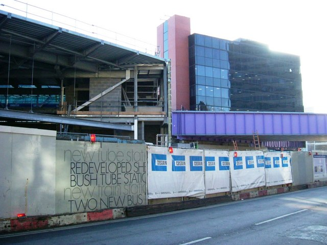 Wood Lane station (01-08)